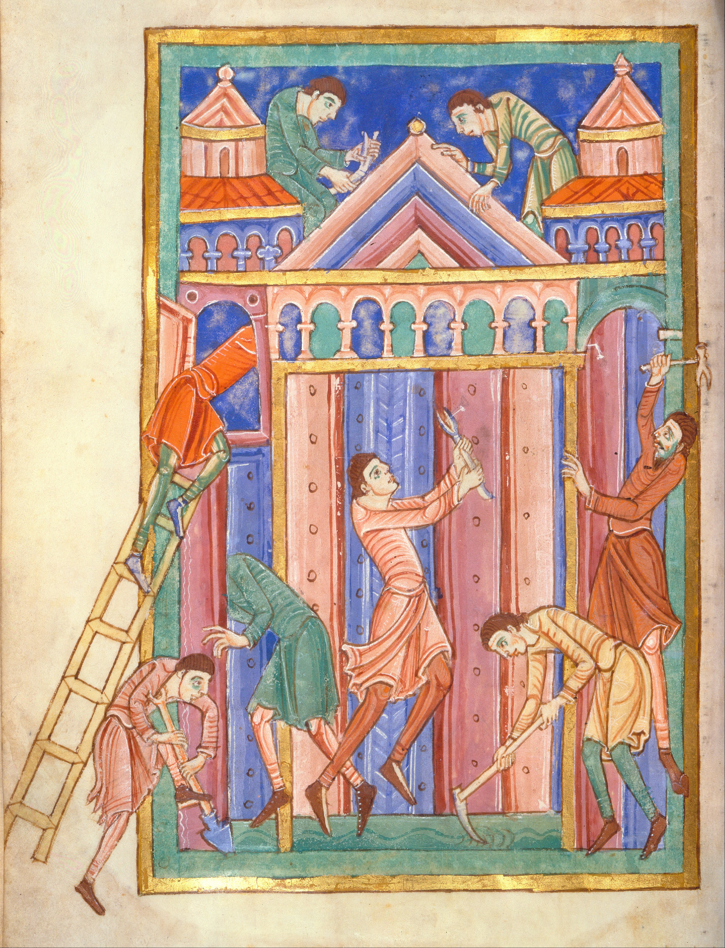 One of the earliest illustrated biographies of an English saint, this lavish volume was a testimonial to patron saint and abbey alike. Most miniatures are based on the passion text of Abbo of Fleury (945–1004); the posthumous miracles depend on Osbert of Clare's text, composed for Anselm shortly before this manuscript was made. In this image, eight thieves are miraculously paralyzed when they attempt to break into Edmund's burial place. The miniatures are attributed to the Alexis Master, founder of the St. Albans school. Named after his St. Alexis cycle in the St. Albans Psalter, he skillfully combined Anglo-Saxon, Ottonian, and Byzantine influences to create England's earliest Romanesque style.